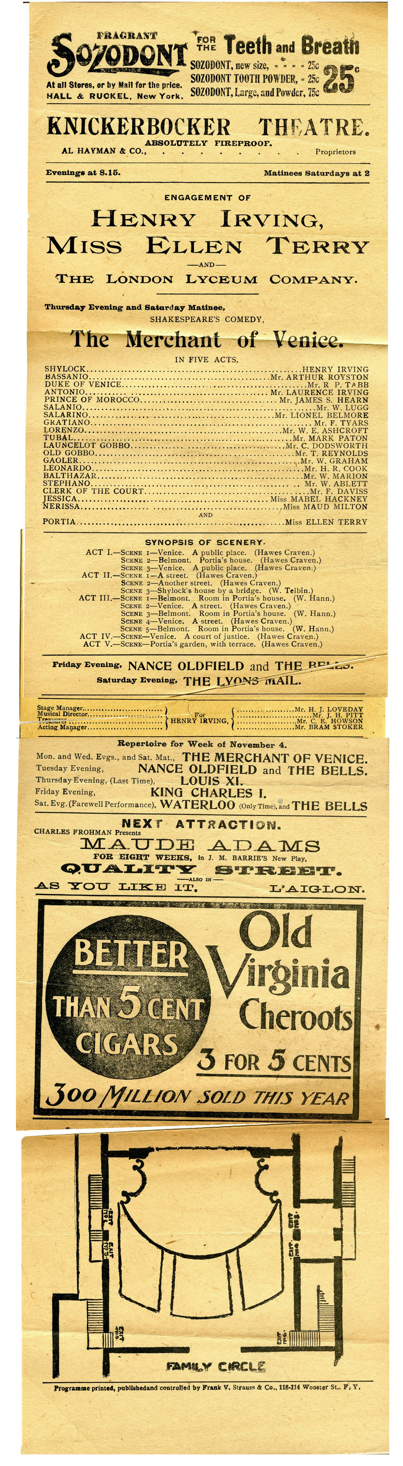 Programme for Broadway show at Knickerbocker Theatre in NYC Lists cast and scenery changes with add for Sozodont tooth paste and Old Virginia Cheroots cigars.